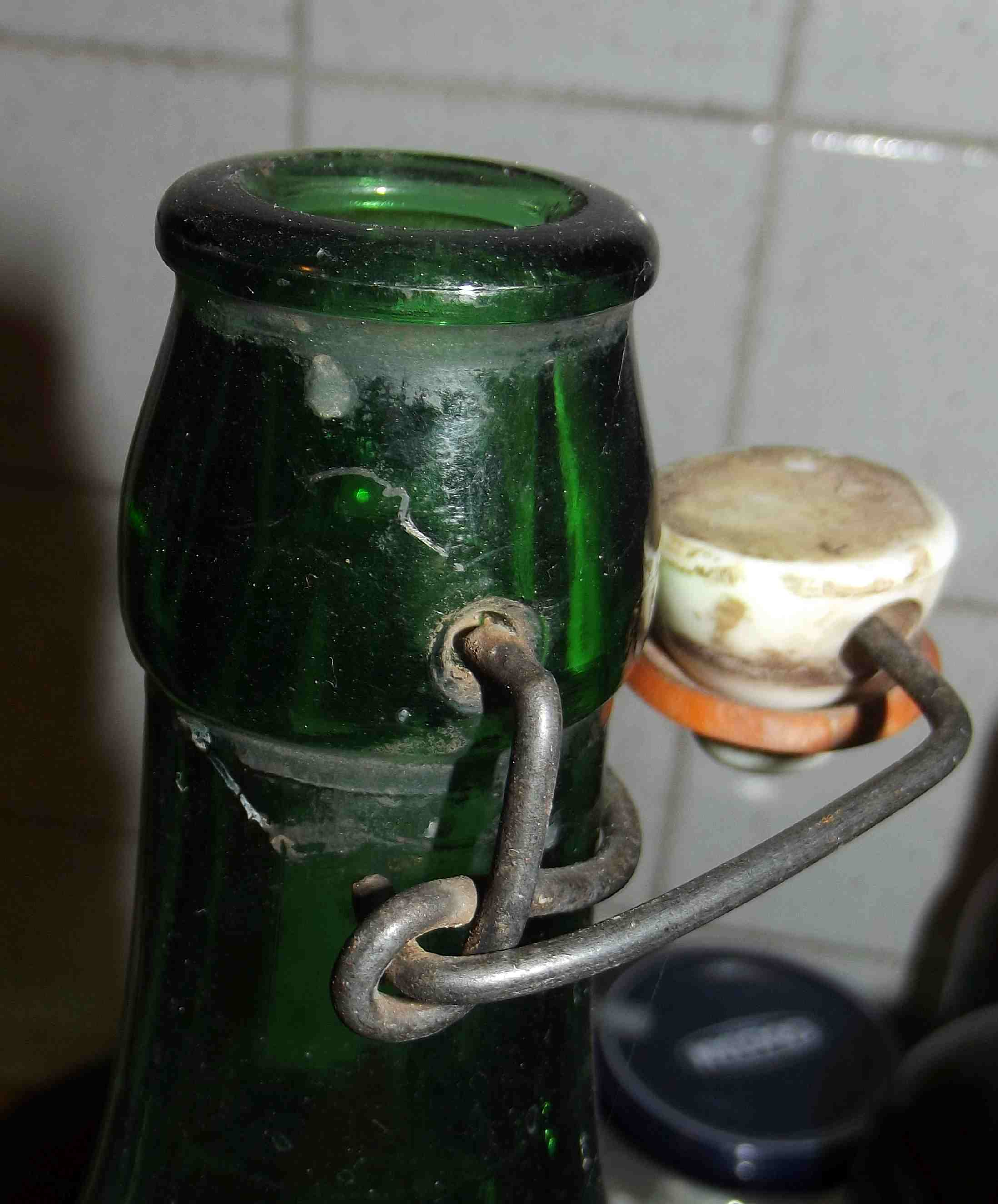 Bottiglione (2 litres traditional italian bottle) : detail